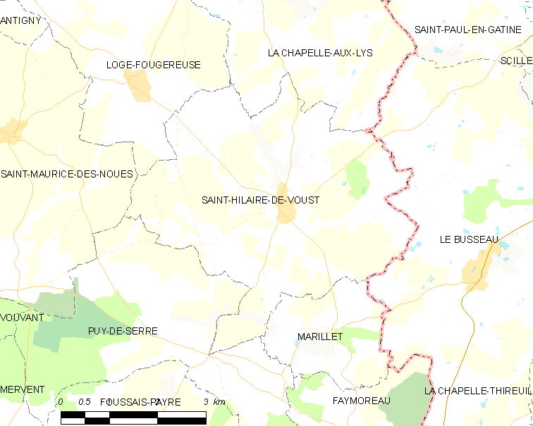 Map of French municipality Saint-Hilaire-de-Voust